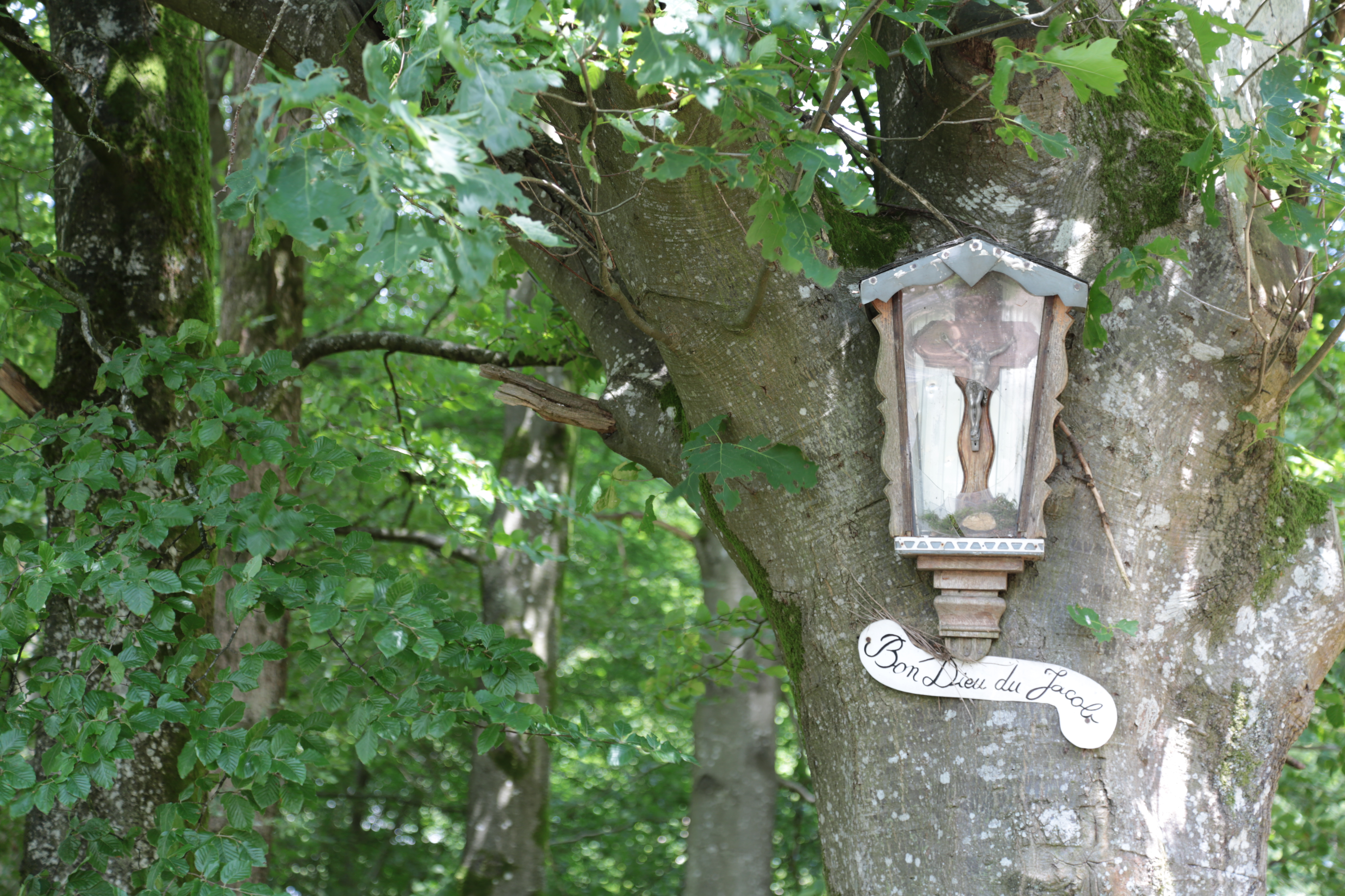 The "bon dieu du Jacob" replacing the stolen Jacob's cross in 1997.